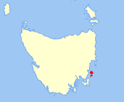 Maria Island, Tasmania, locator map